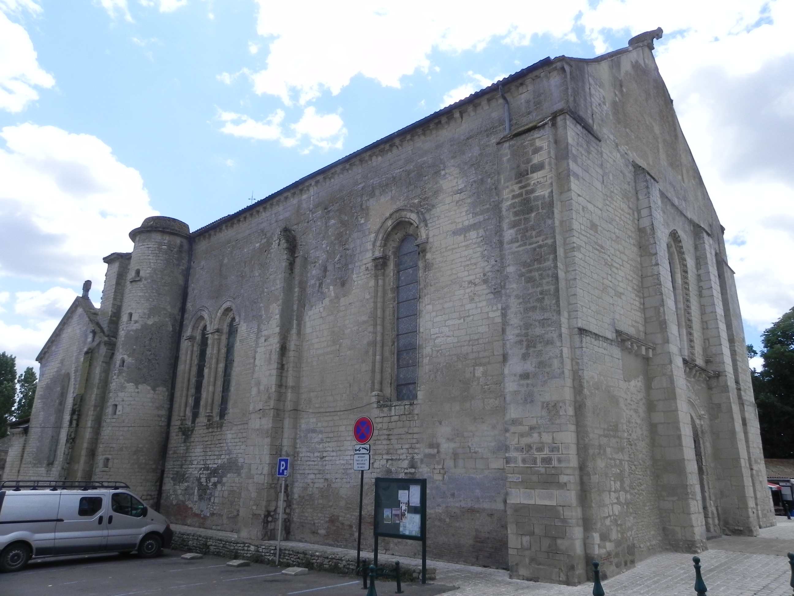 Church Sainte-Marie of Angles (Vendée, France)